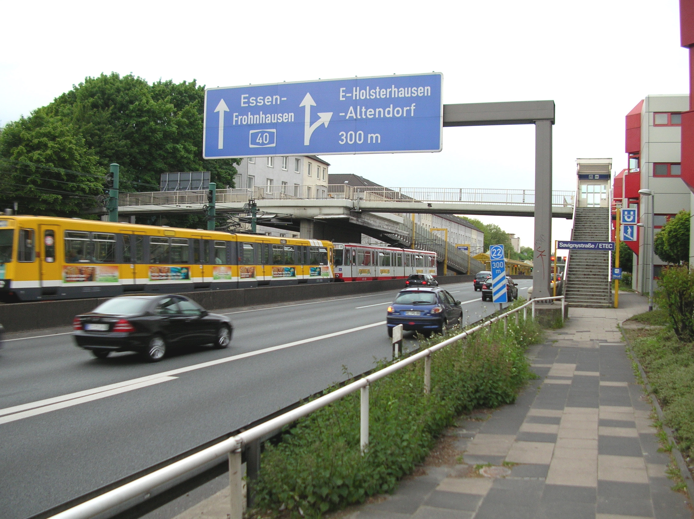 Bundesautobahn 40 in Essen-Frohnhausen, near tram stop Savignystrasse. Taken by myself, April 2005.